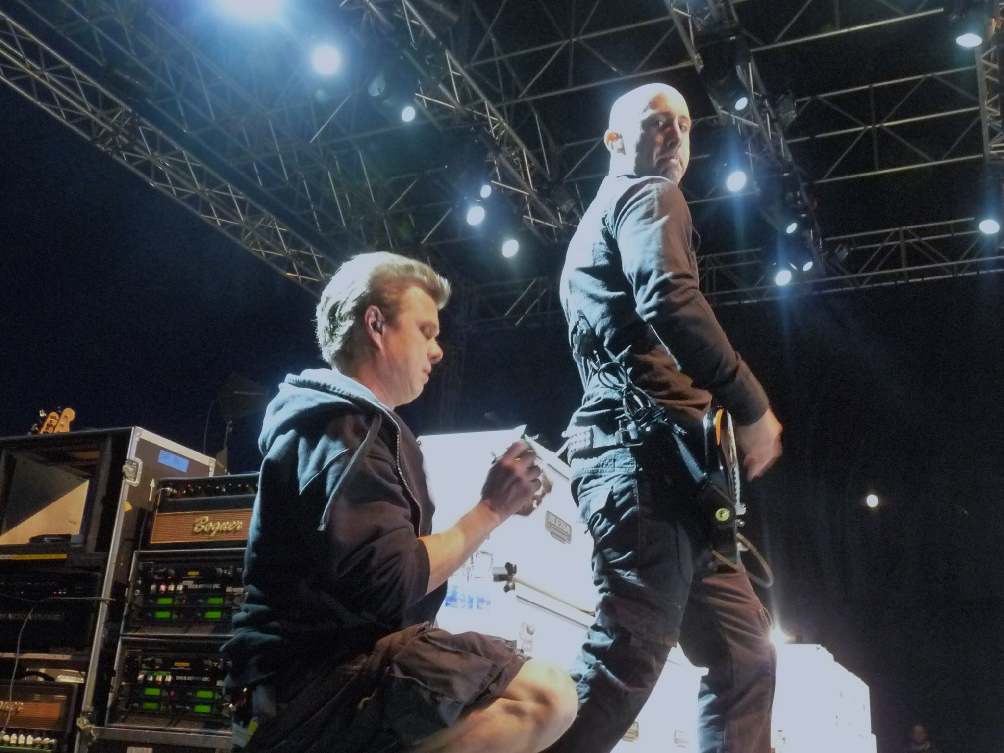 Jeff Stinco receives assistance from a tech during Simple Plan's August 2, 2009 show in North Bay.